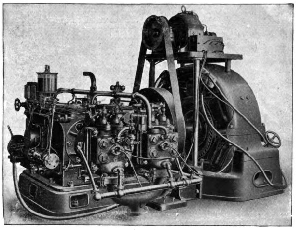 When North Eastern Railways were trialling petrol-electric railcars in 1903 they decided to swap the engines from Napier to this Wolseley flat 4 petrol engine, details of which were published in the Automotor Journal in January 1904. Captioned As { }